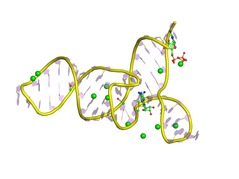 Cartoon representation of the molecular structure of protein registered with 3e5f code.